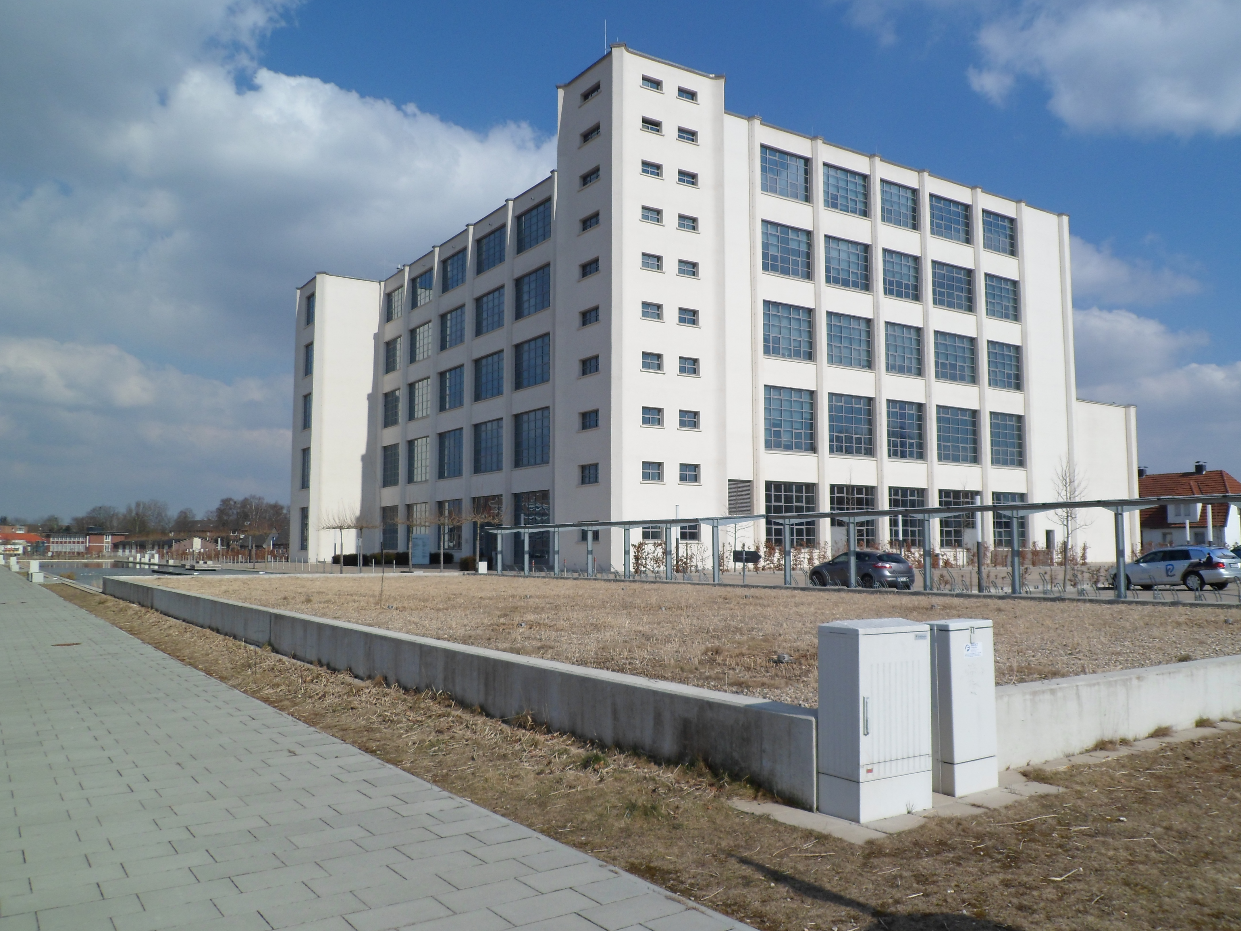 Nordhorn, Spinnerei Hochbau